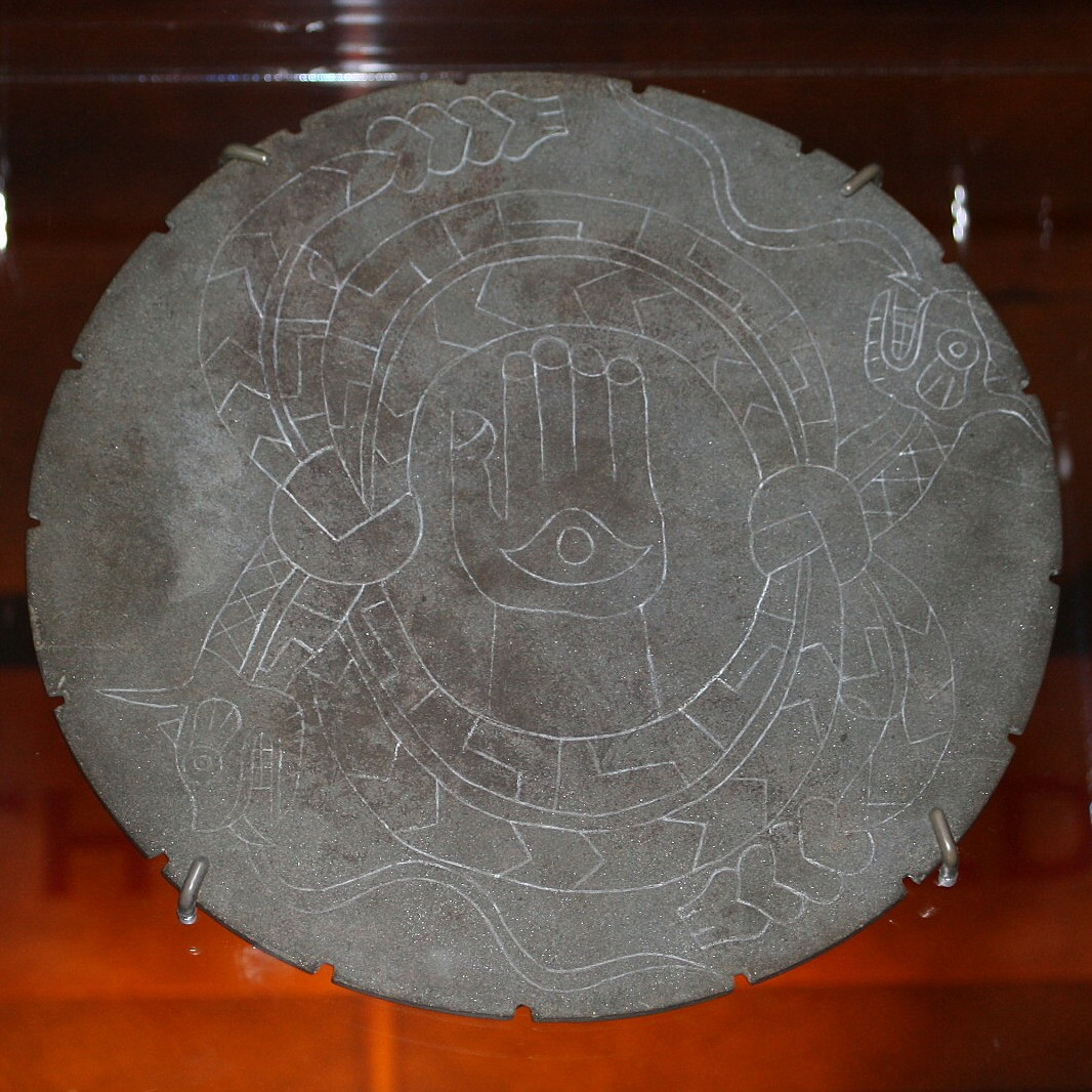 The Rattlesnake Disk. A ceremonial stone palette plowed up by a 19th century farmer in Moundville, Hale County, Alabama, United States. Housed in the Jones Archaeological Museum at the Moundville Archaeological Park.